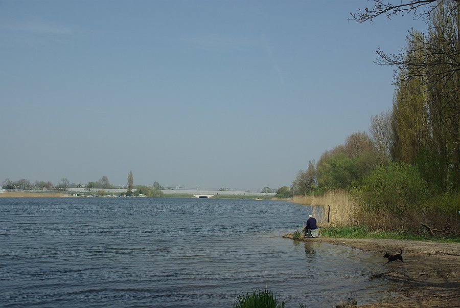 Waaltje, old river south of Rotterdam